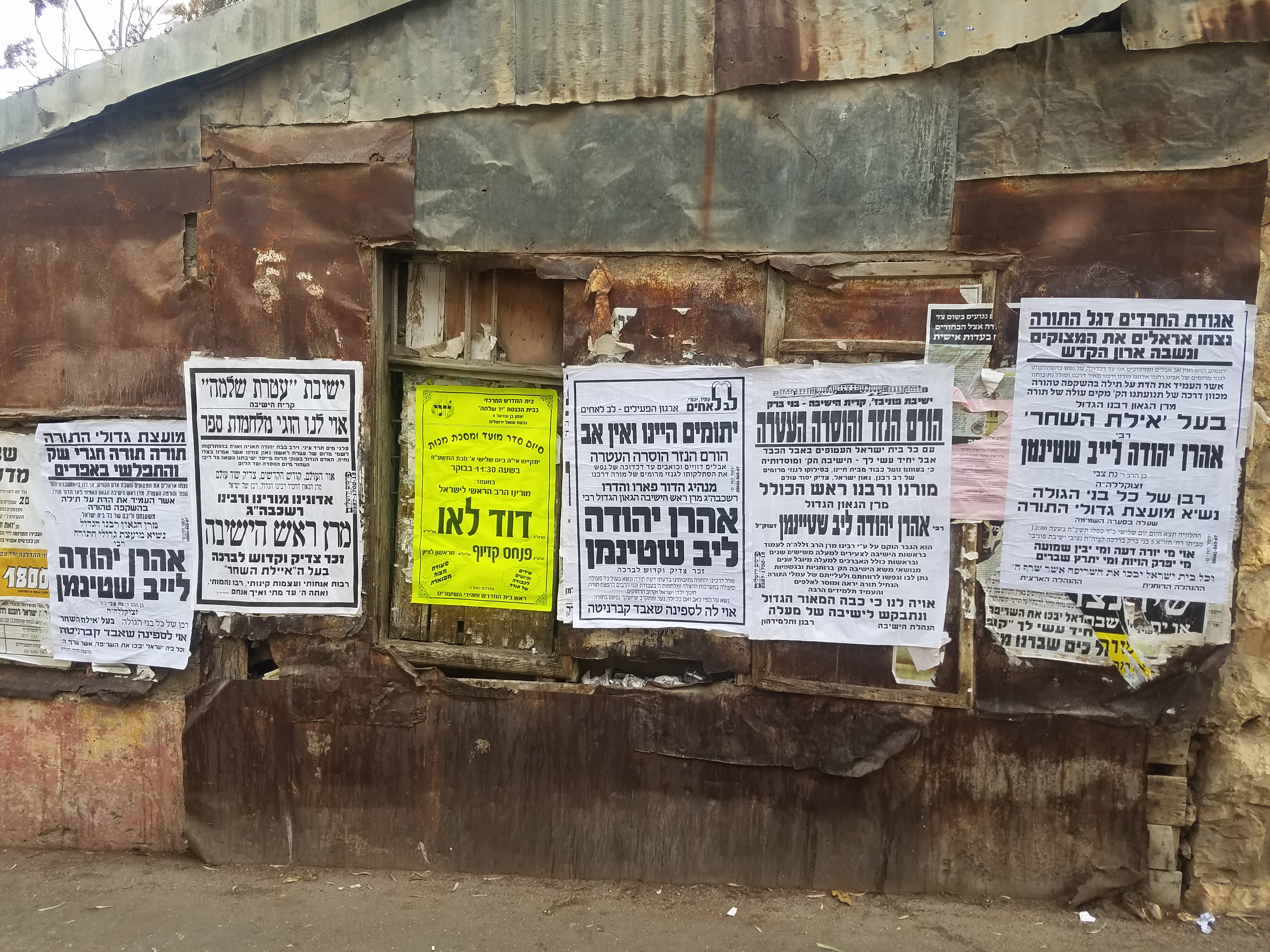 Aharon Leib Steinman death noticse